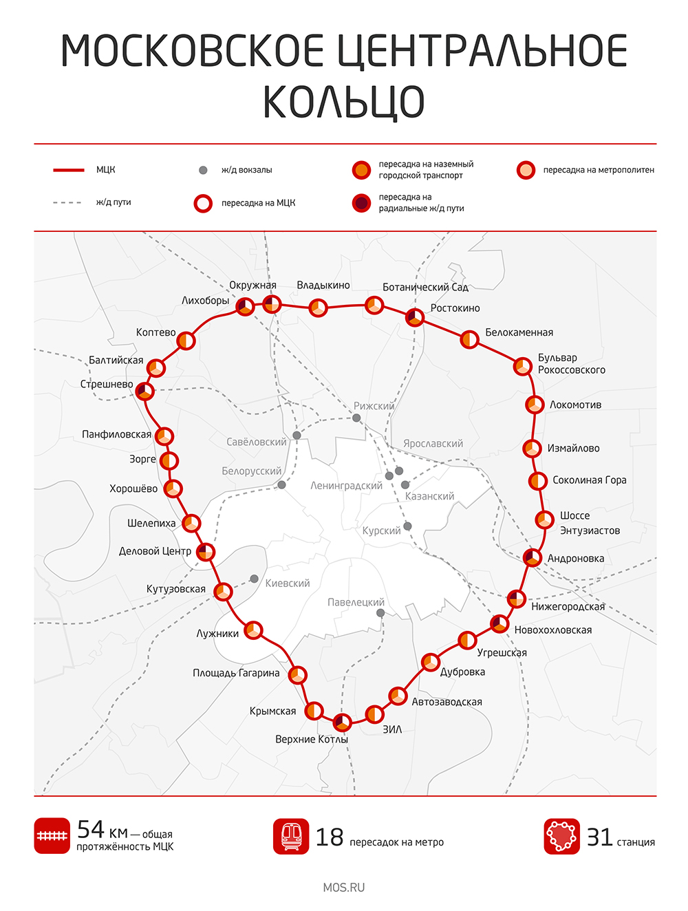 Moscow Central Ring - Route map